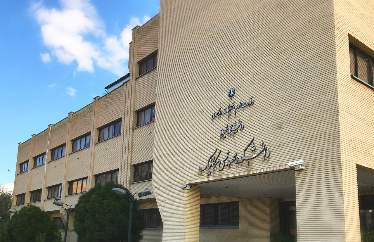 Shiraz University